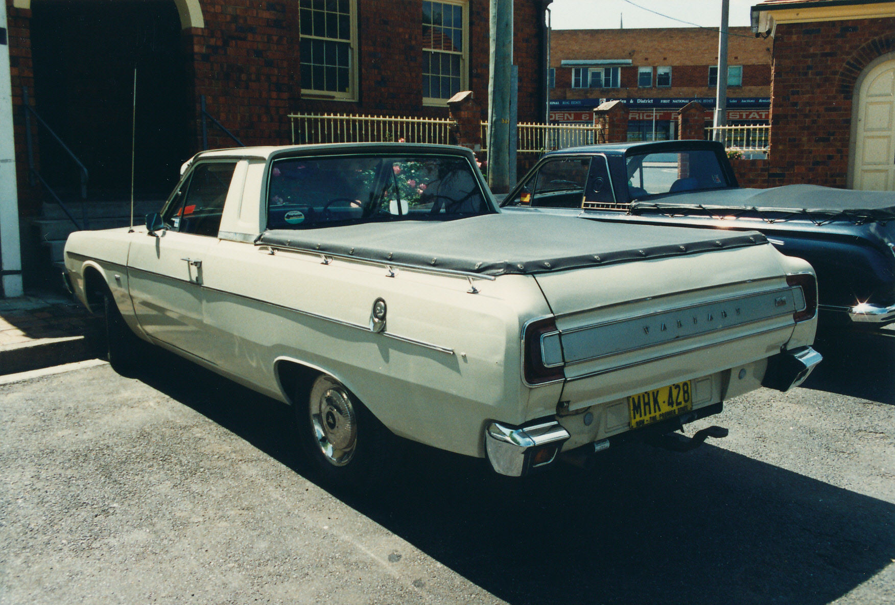 This image is a scan of a 35 mm print taken at the All Chrysler Day in Camden, NSW in 1995